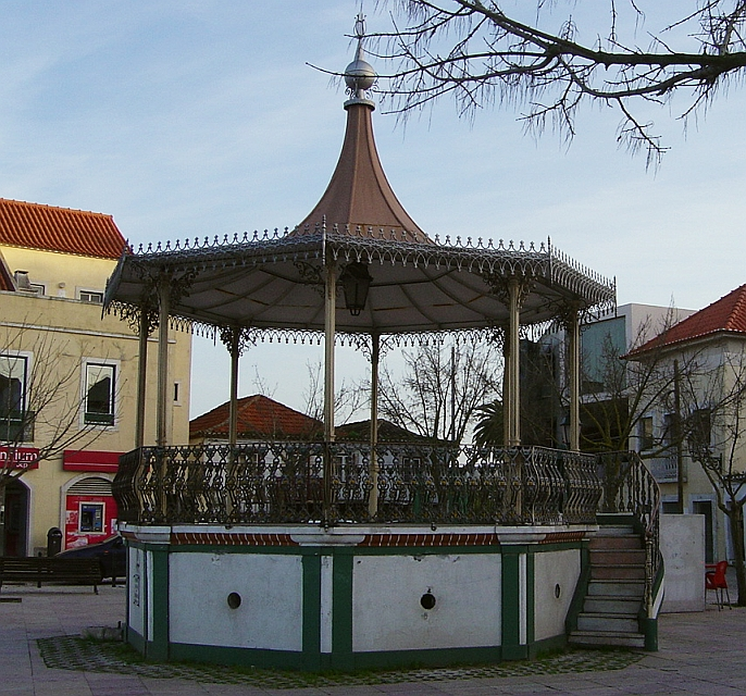 Bandstand of the city of Amora, municipality of Seixal, Portugal